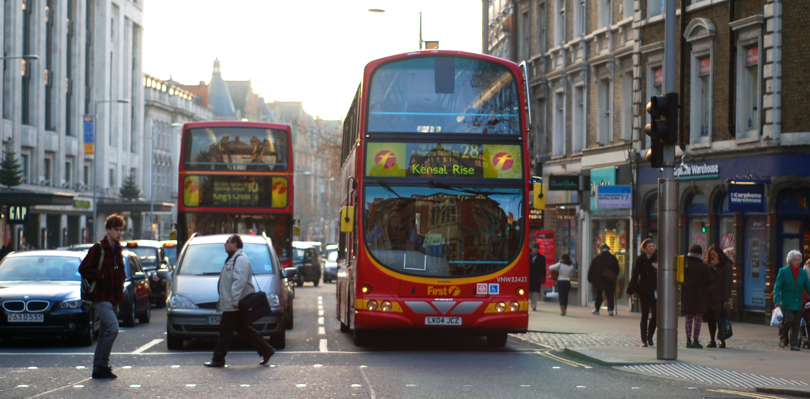 Kensington High Street.